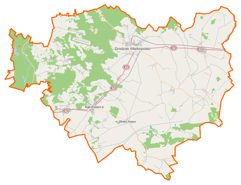 Map of Powiat grodziski, Poland This map of Powiat grodziski (województwo wielkopolskie) was created from OpenStreetMap project data, collected by the community. This map may be incomplete, and may contain errors. Don't rely solely on it for navigation. Border coordinates52.293816.0531←↕→16.620352.0259